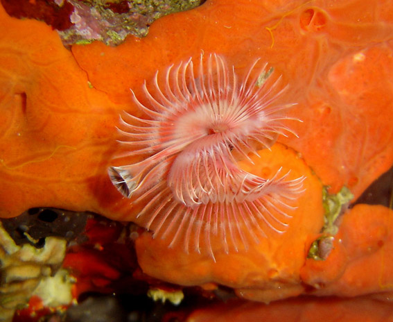 Serpula vermicularis (Croatia) (Personal photograph)